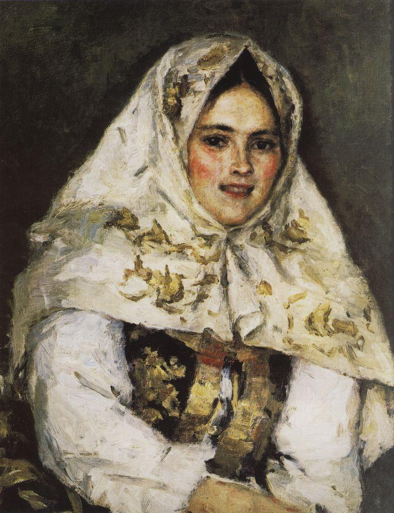 Siberian Beauty, Portrait of E.A. Rachkovskaya by Vasily Surikov.